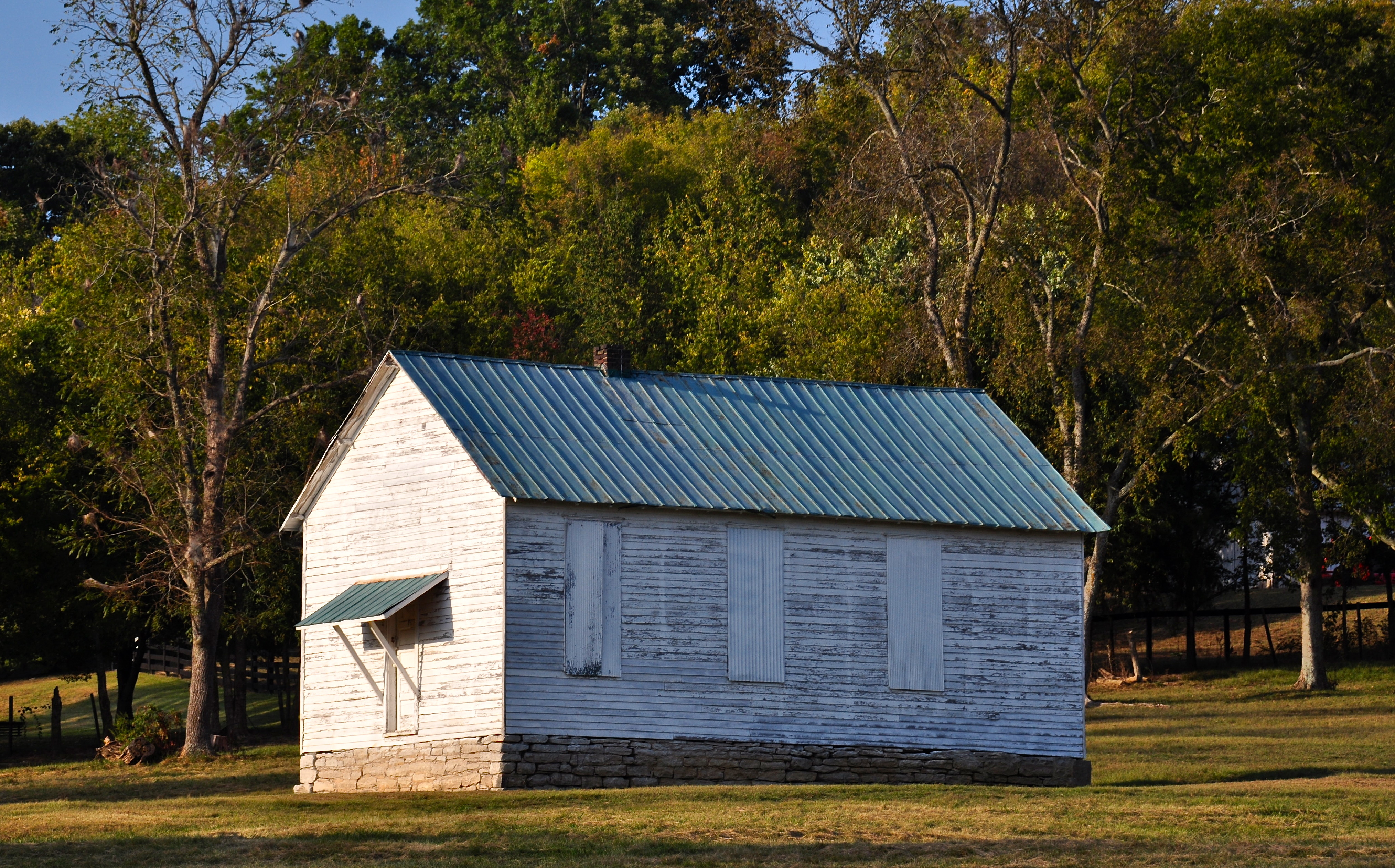 Forest Hills School, Carters Creek Pike 0.2 miles (0.32 km) south of Bear Creek Rd. Franklin